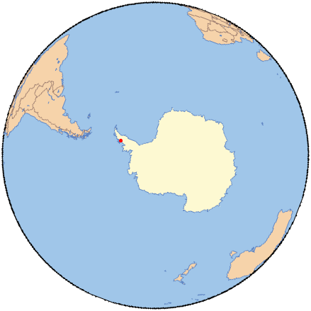 Location map for the San Martin Base